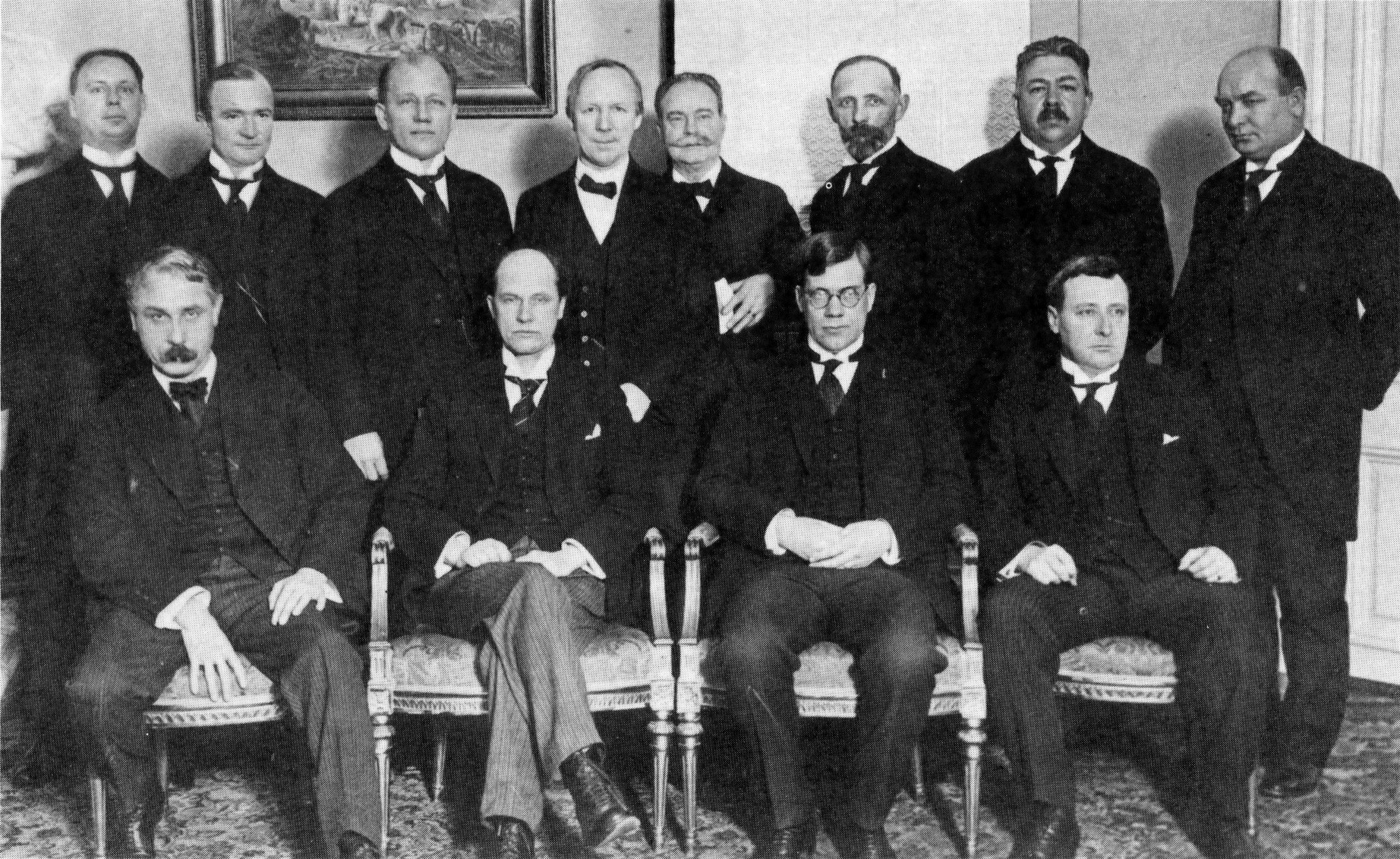 The cabinet of Rickard Sandler (1925-1926). Sitting from left: Minister for Eclesiastic Affairs Olof Olsson, Prime Minister Rickard Sandler, Minister for Foreign Affairs Östen Undén, Minister for Justice Thorsten Nothin. Standing from left: Minister without Portfolio Karl Levinson, Minister for Social Affairs Gustav Möller, Minister without Portfolio Karl Schlyter, Minister for Finance Ernst Wigforss, Minister for Communications Viktor Larsson, Minister for Agriculture Sven Linders, Minister for Trade Carl Svensson, Minister for Defense Per Albin Hansson.